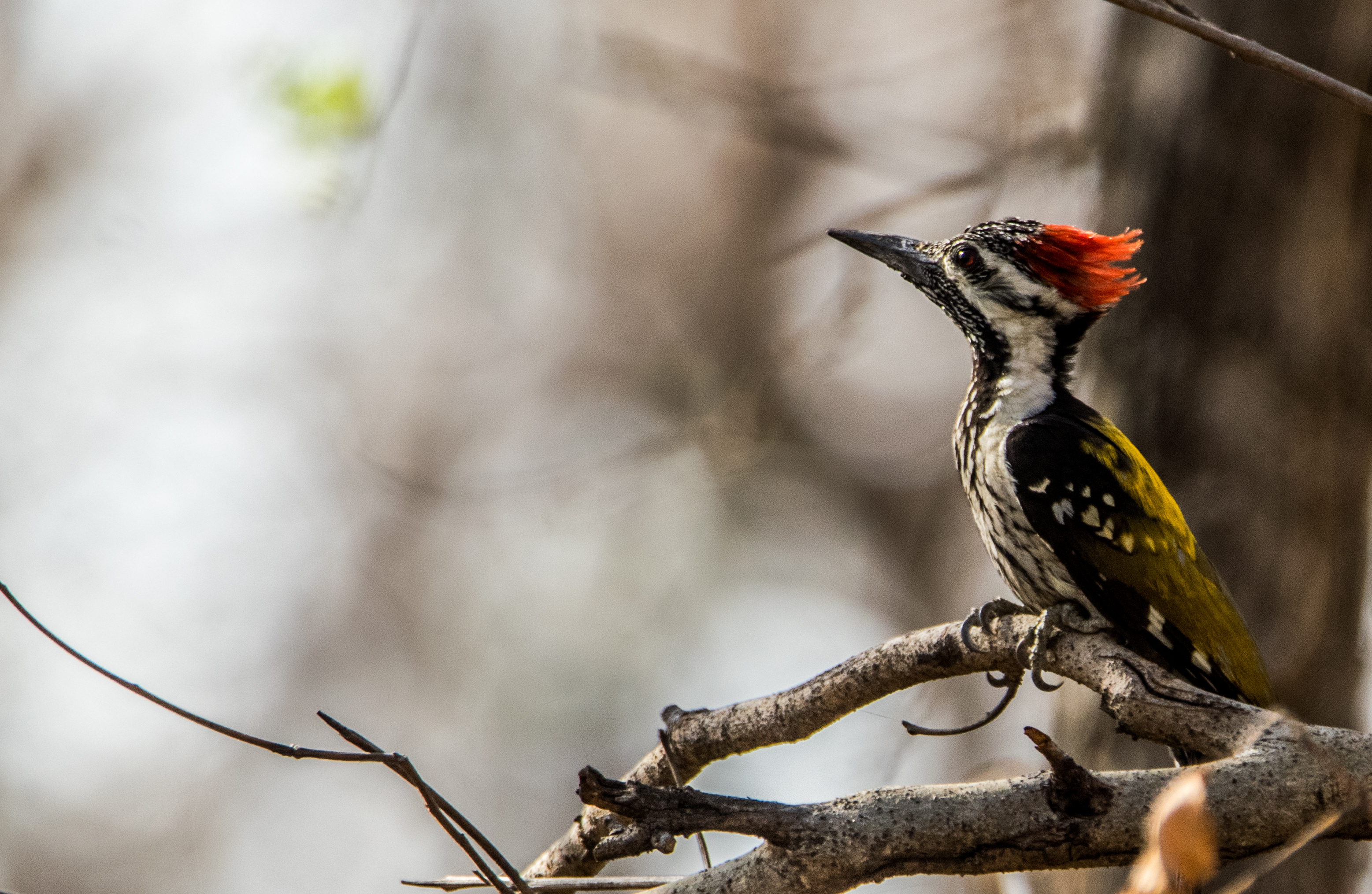 This woodpecker is one of the most active birds moving around the jungle like there's no tomorrow. Pench National Park